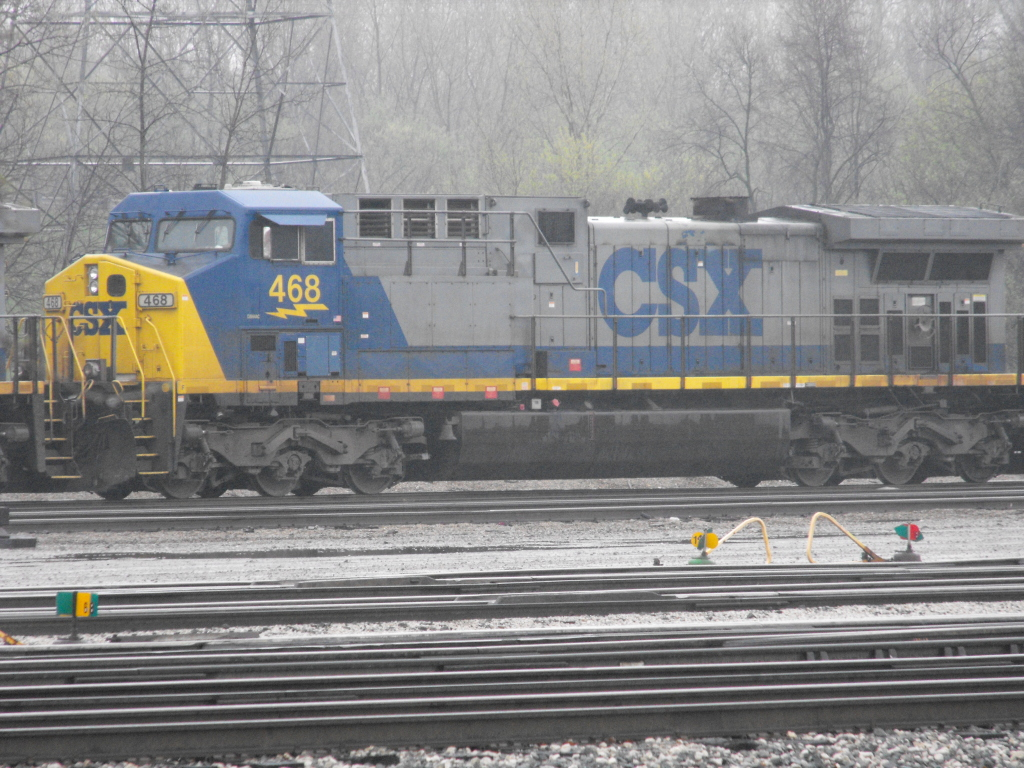 CSX #468 Grand Rapids, Michigan